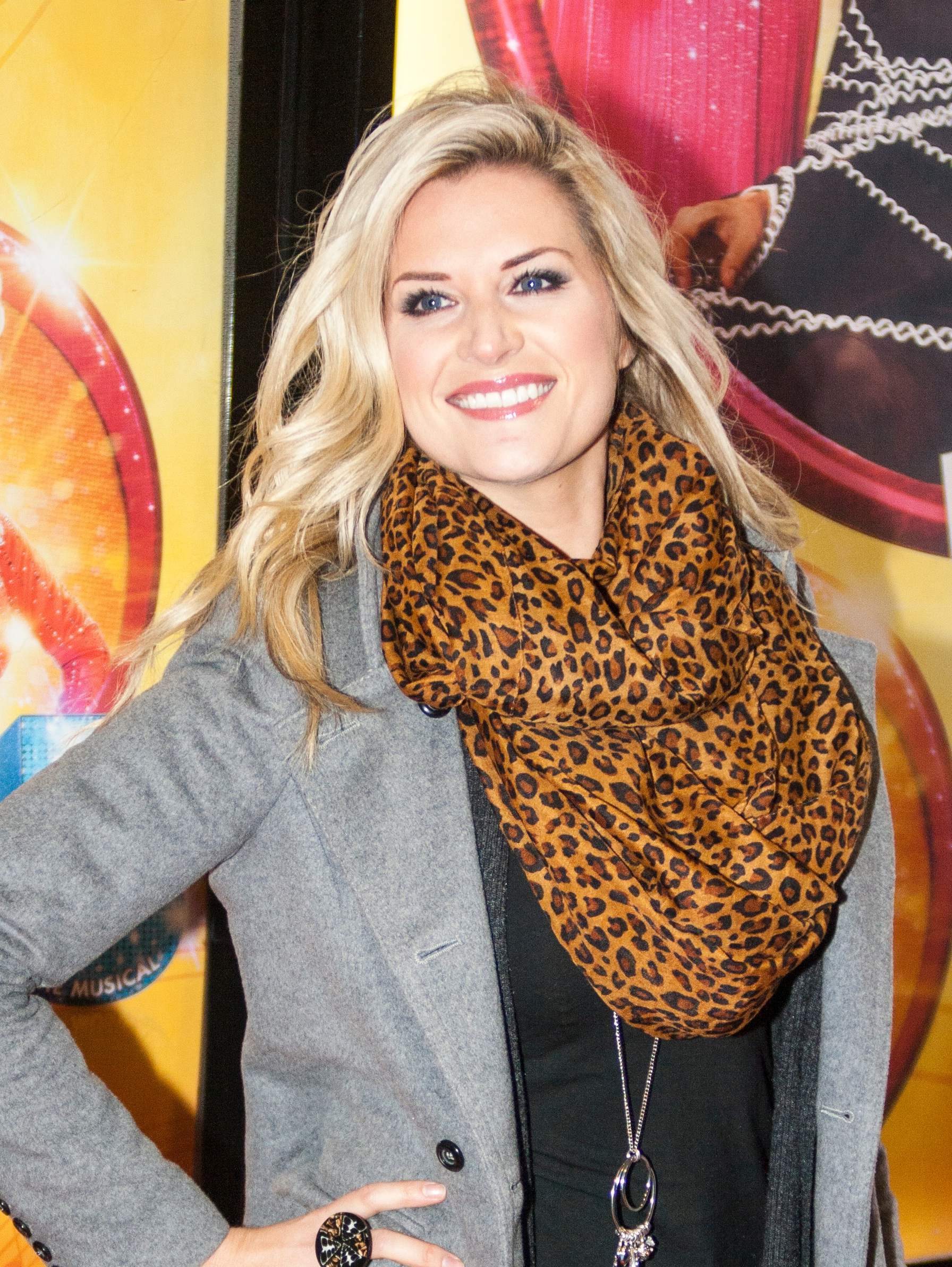 Sarah Jayne Dunn outside the Manchester Opera House for a performance of the 9 to 5 musical.